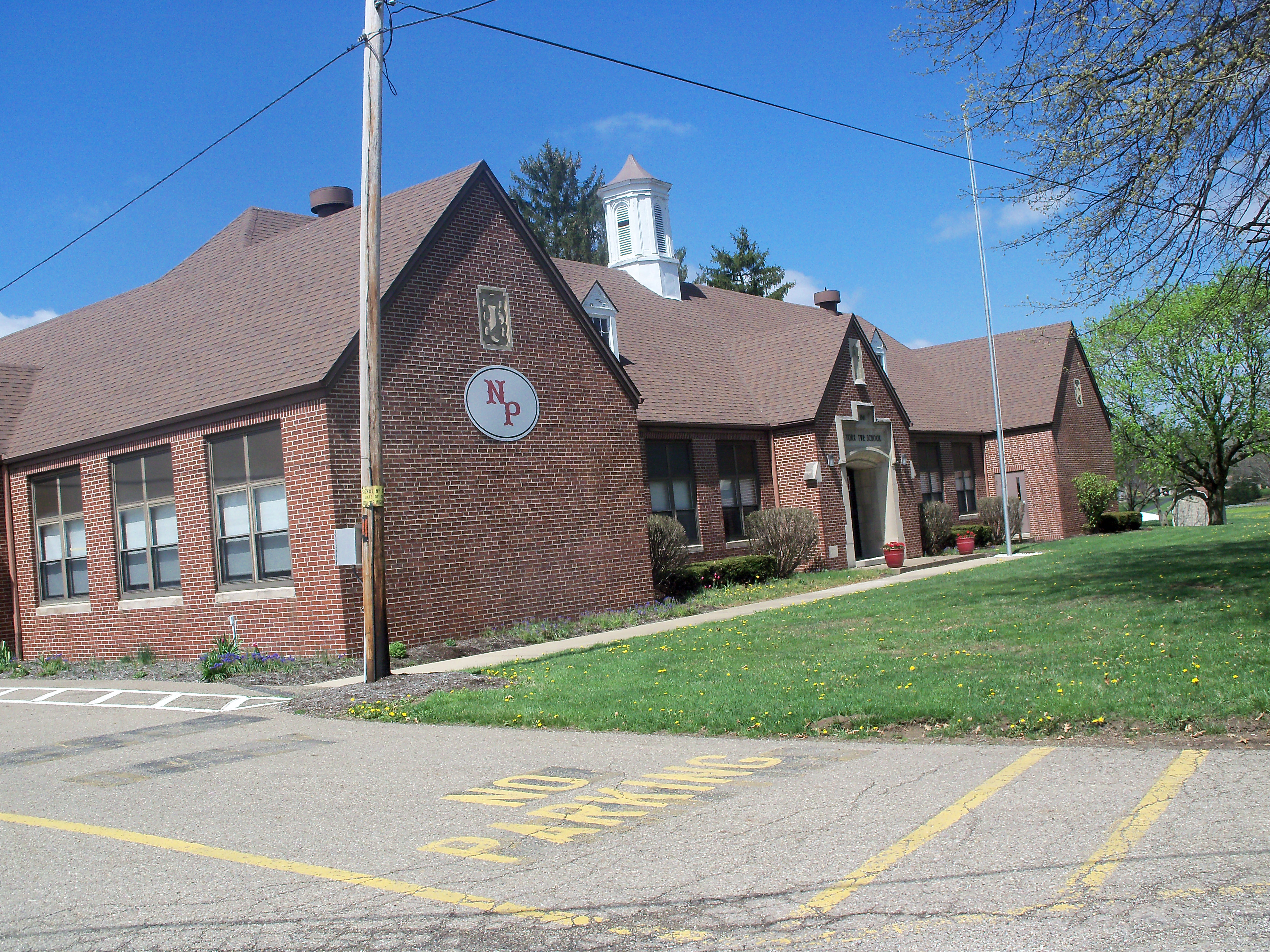 School in York Township, Tuscarawas County, Ohio, and elementary school of the New Philadelphia system.